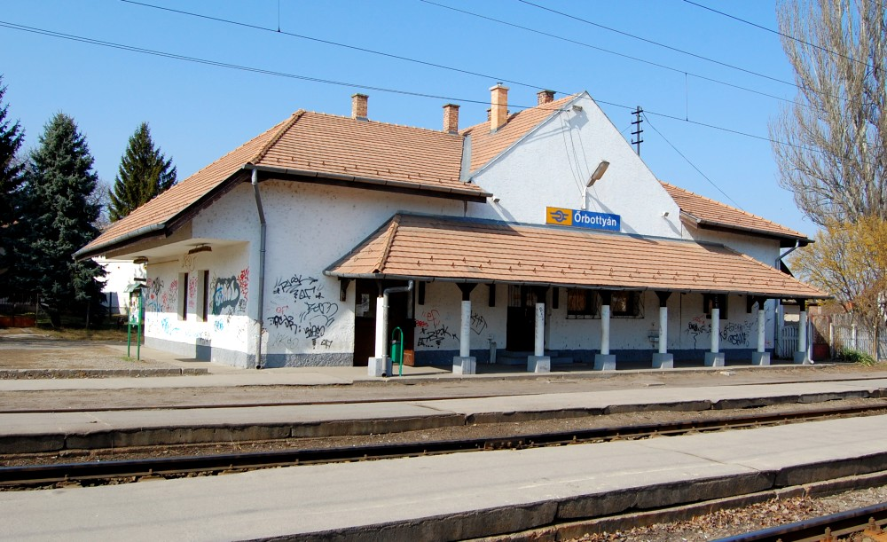 Őrbottyán, railway station